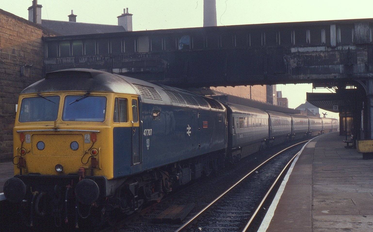 The frequent Edinburgh to Glasgow shuttle service was formerly operated by pairs of class 27s on each end of a rake of non-air conditioned mark 2 stock. By the end of the 1970s these were in need of replacement. So 12 class 47/4s were adapted to work in push-pull formation with rakes of mark 3 stock. Renumbered as class 47s these covered the route and later the push-pull operation was extended to Aberdeen. Seen at Haymarket on 5 June 1982, 47707 "Holyrood" is seen on on an Edinburgh to Glasgow Queen Street service.